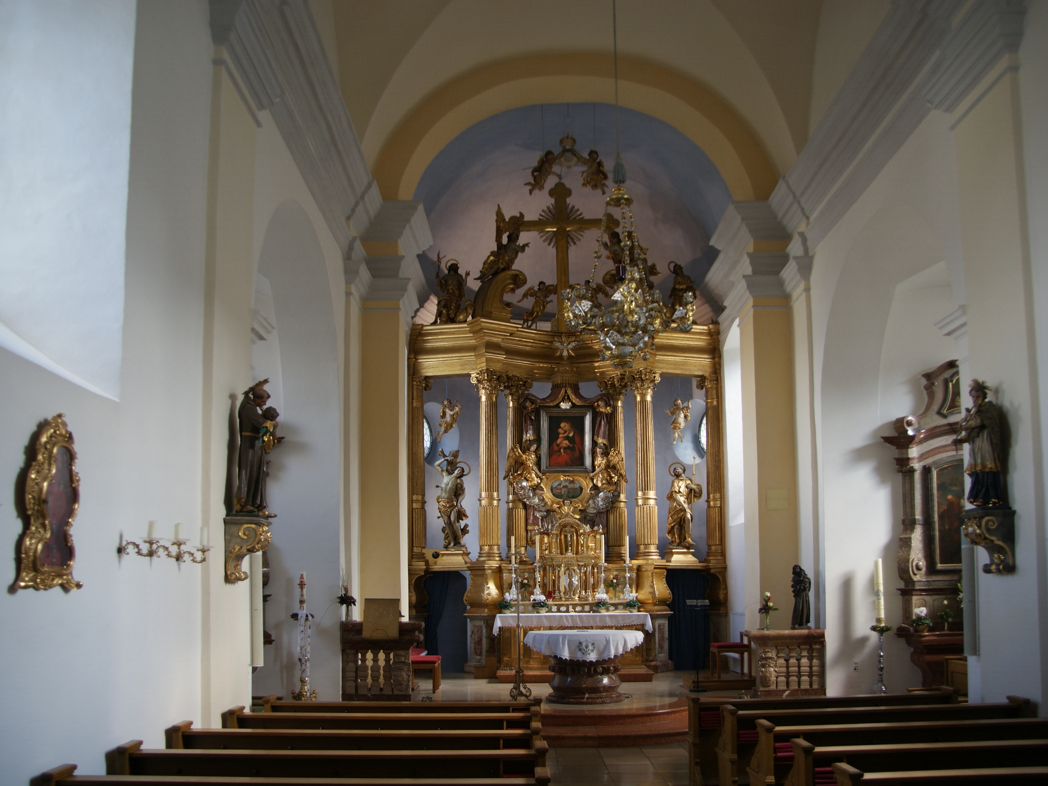 Interior of pilgrimage church Mariahilf in Passau